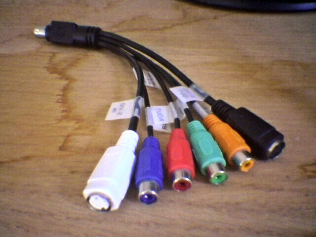 VIVO splitter cable for computer video card. Taken with a Sony Clié PEG-NX73V.